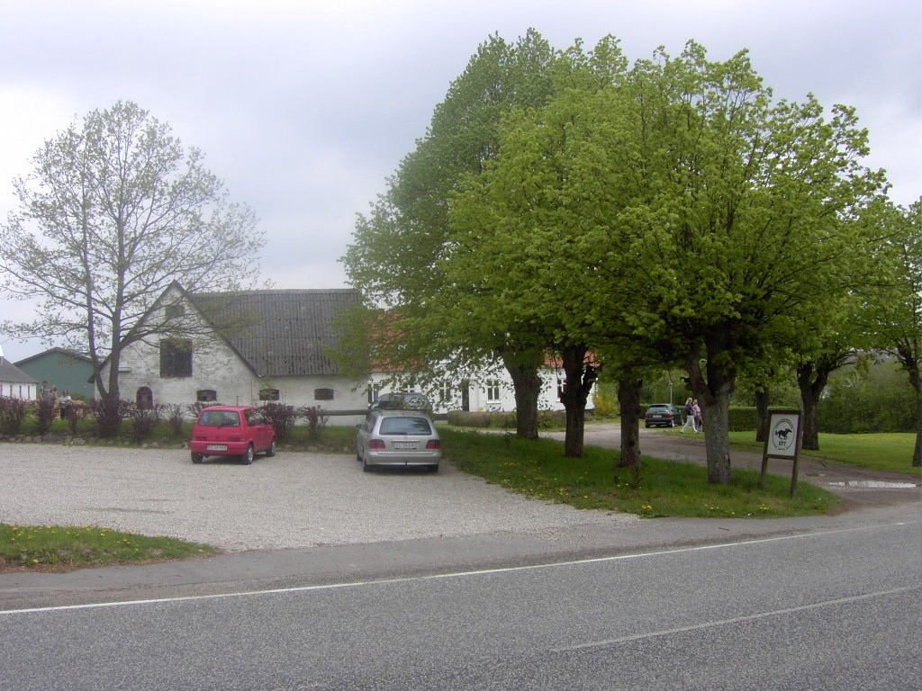 The farm Vestervang in Kirke Sonnerup, Lejre Kommune, Denmark